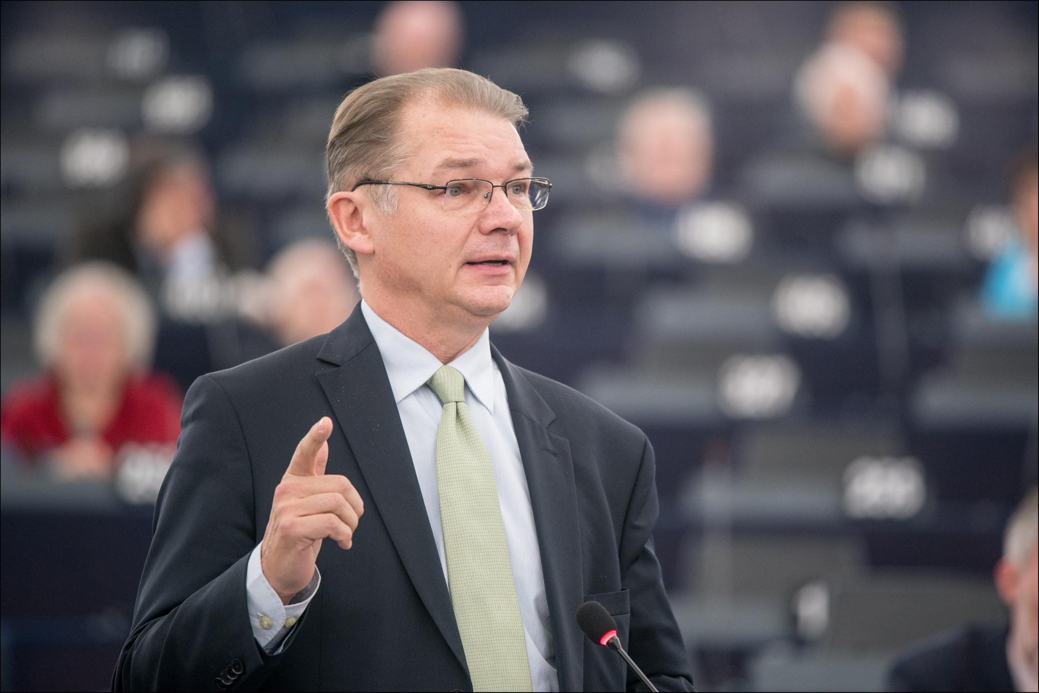 Following the UK parliament's rejection of the Brexit deal in a vote last evening, members of the European Parliament have underlined that the EU will remain united and that citizens’ rights are Europe's priority. Speaking in a debate in Parliament today, Commission Vice-President Frans Timmermans said commitments on the peace process and the border in Ireland or on citizens’ rights cannot be watered down. Parliament's lead member on Brexit @guyverhofstadt called on UK politicians to build a positive majority to break the Brexit deadlock. READ MORE ►► This photo is free to use under Creative Commons license CC-BY-4.0 and must be credited: "CC-BY-4.0: © European Union 20XY – Source: EP". No model release form if applicable. For bigger HR files please contact: webcom-flickr(AT)